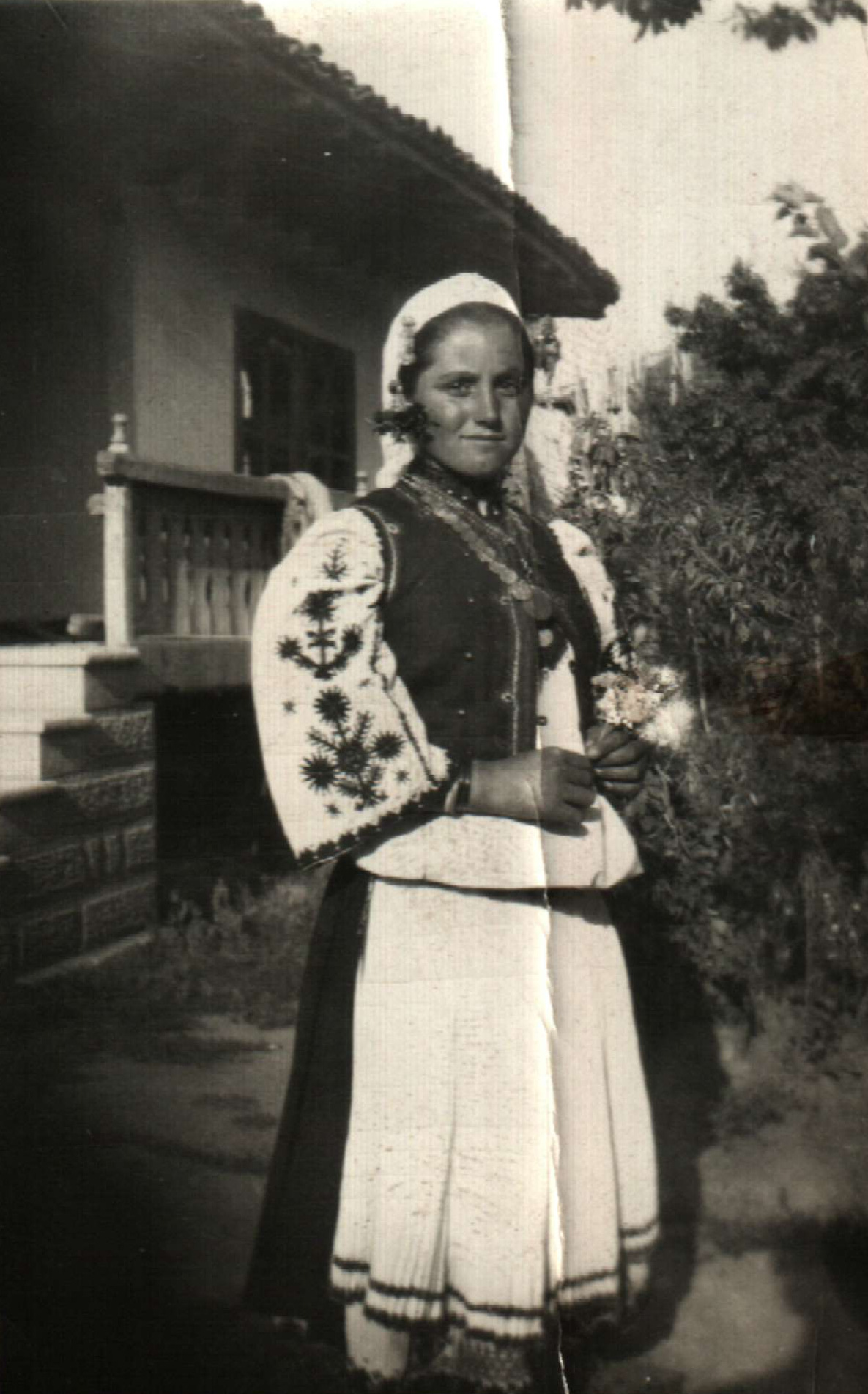 National costume from Borisovo, Razgrad region, Bulgaria.